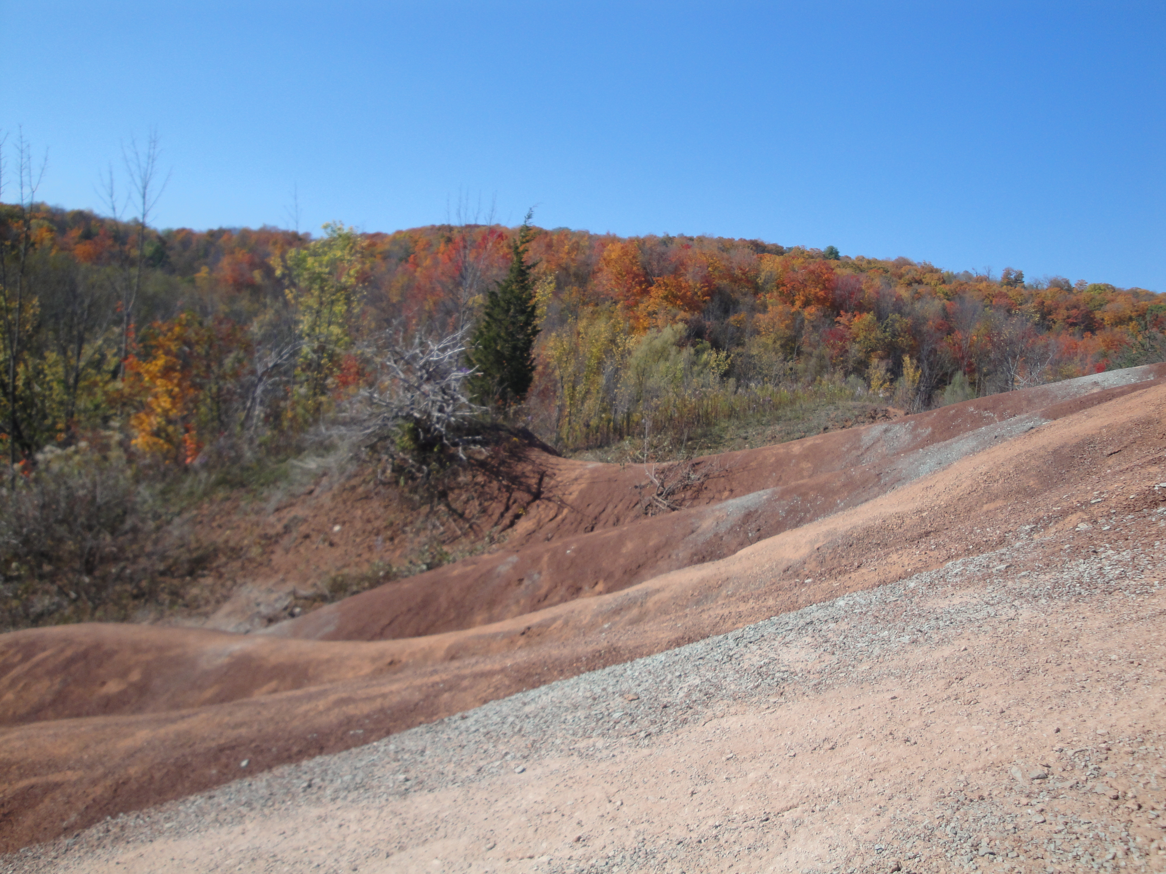 Cheltenham Badlands, Fall 2010